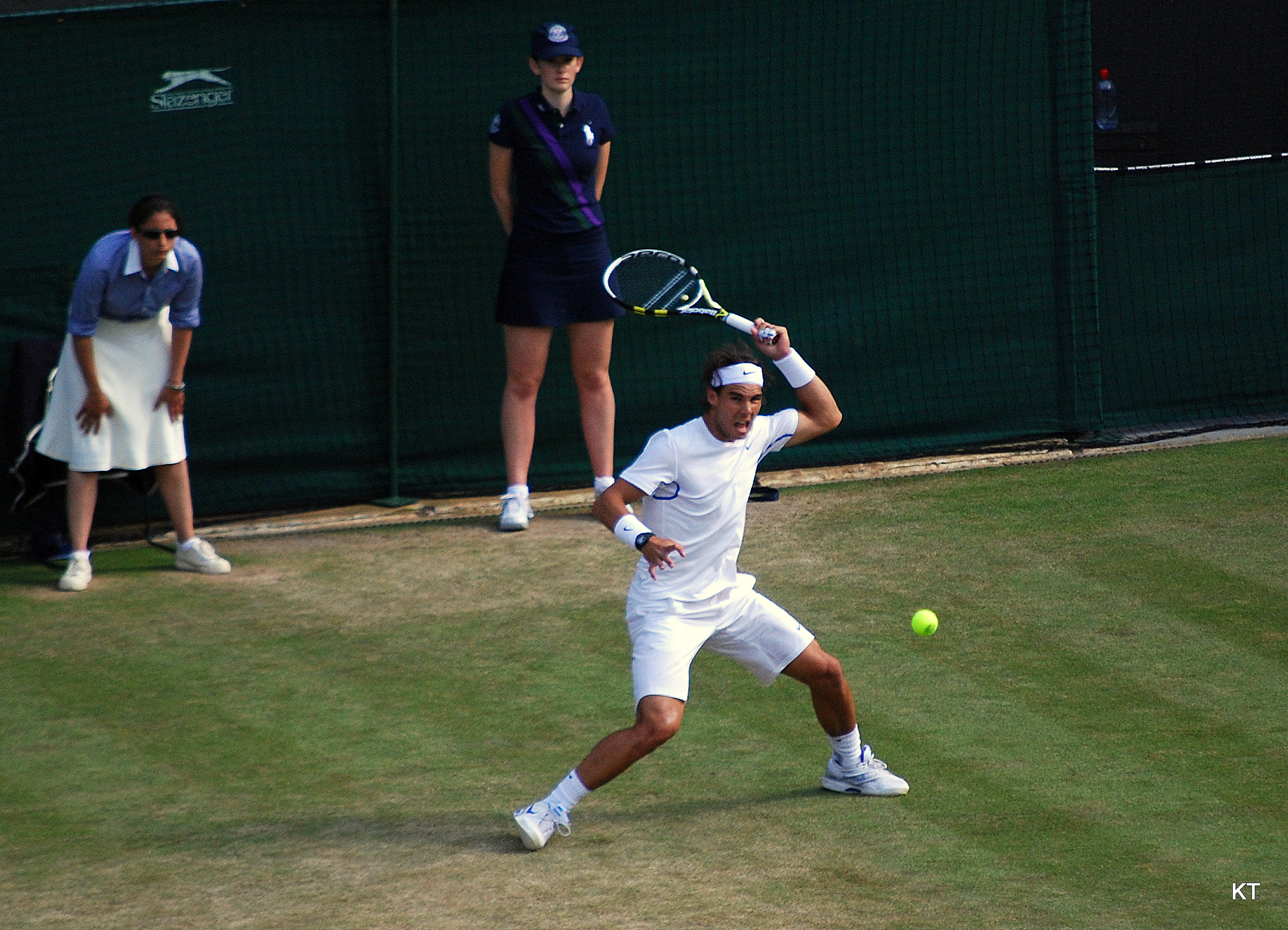 Rafael Nadal during his quarter-final with Mardy Fish on Court 1, on Day 9 of Wimbledon 2011. Nadal won 6-3 6-3 5-7 6-4.